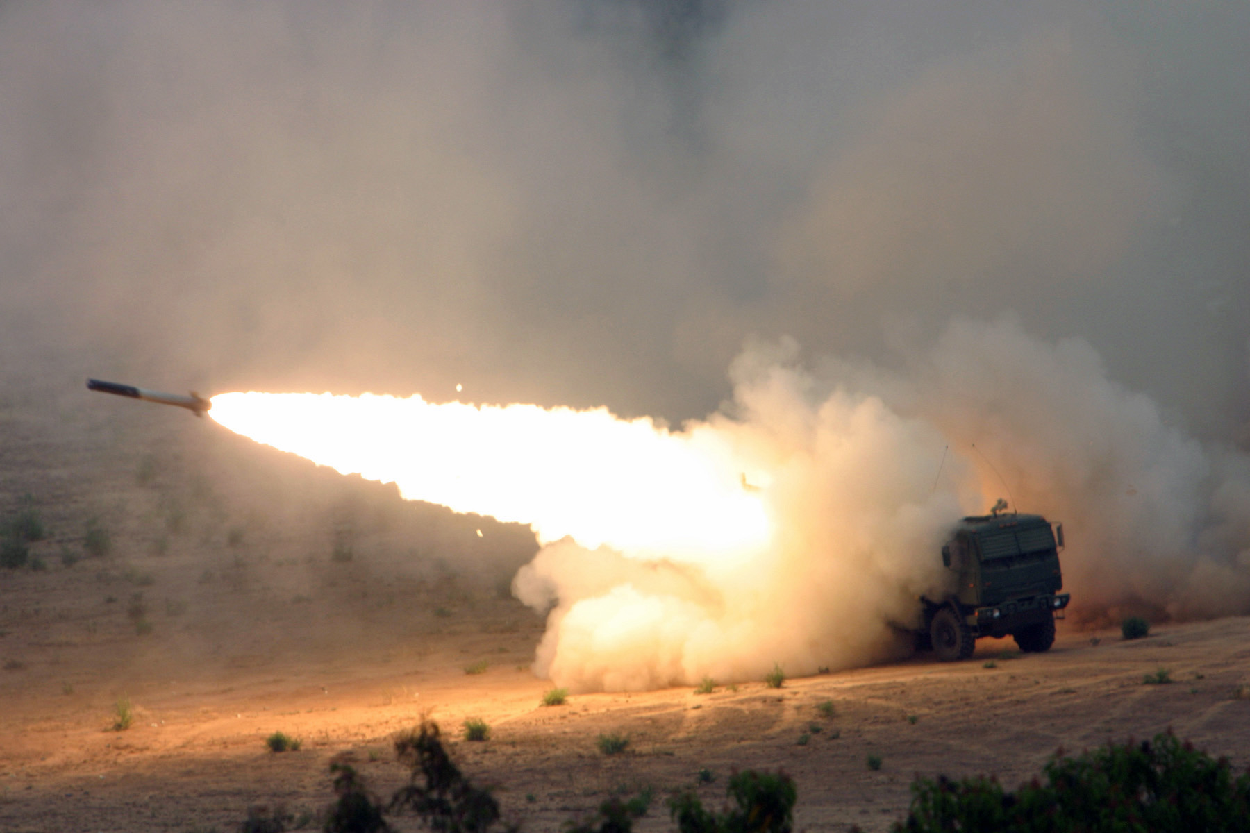 U.S. Marine Corps Marines, Tango Battery, 5th Battalion, 11th Marine Regiment, 1st Marine Division, fire a Multiple Launch Rocket System Family of Munitions (MFOR) rocket from a High Mobility Artillery Rocket System (HIMARS) launcher at Camp Pendleton, Calif., on June 1, 2007. The HIMARS system consists of one launcher, two re-supply vehicles, two re-supply trailers and a basic load of nine pods (six rockets per pod) of MFOR rockets.